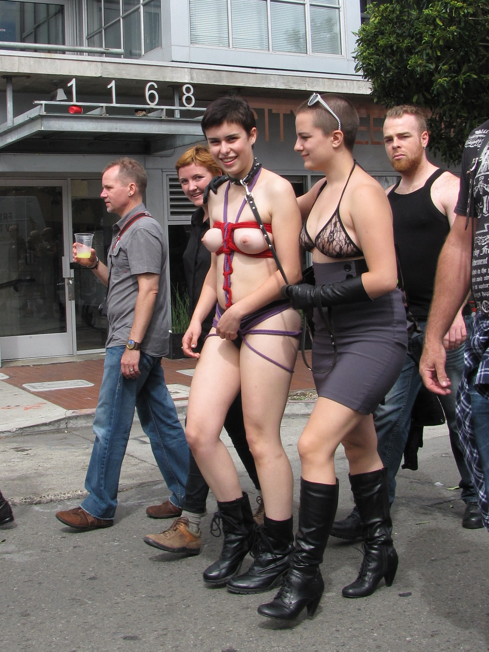 Folsom Street Fair 2013, San Francisco